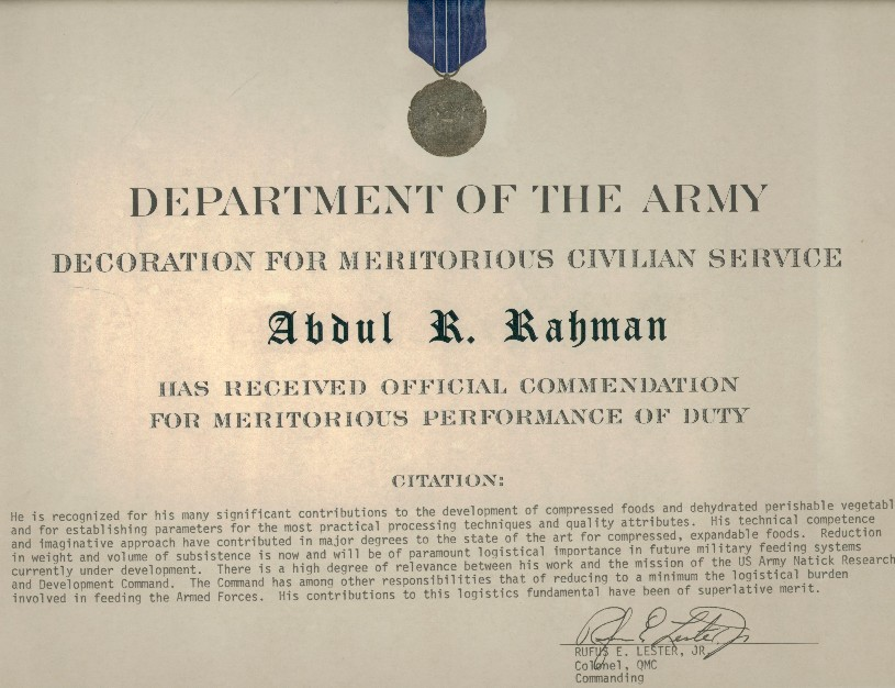 Army civilian medal citation for Dr Abdul Rahman